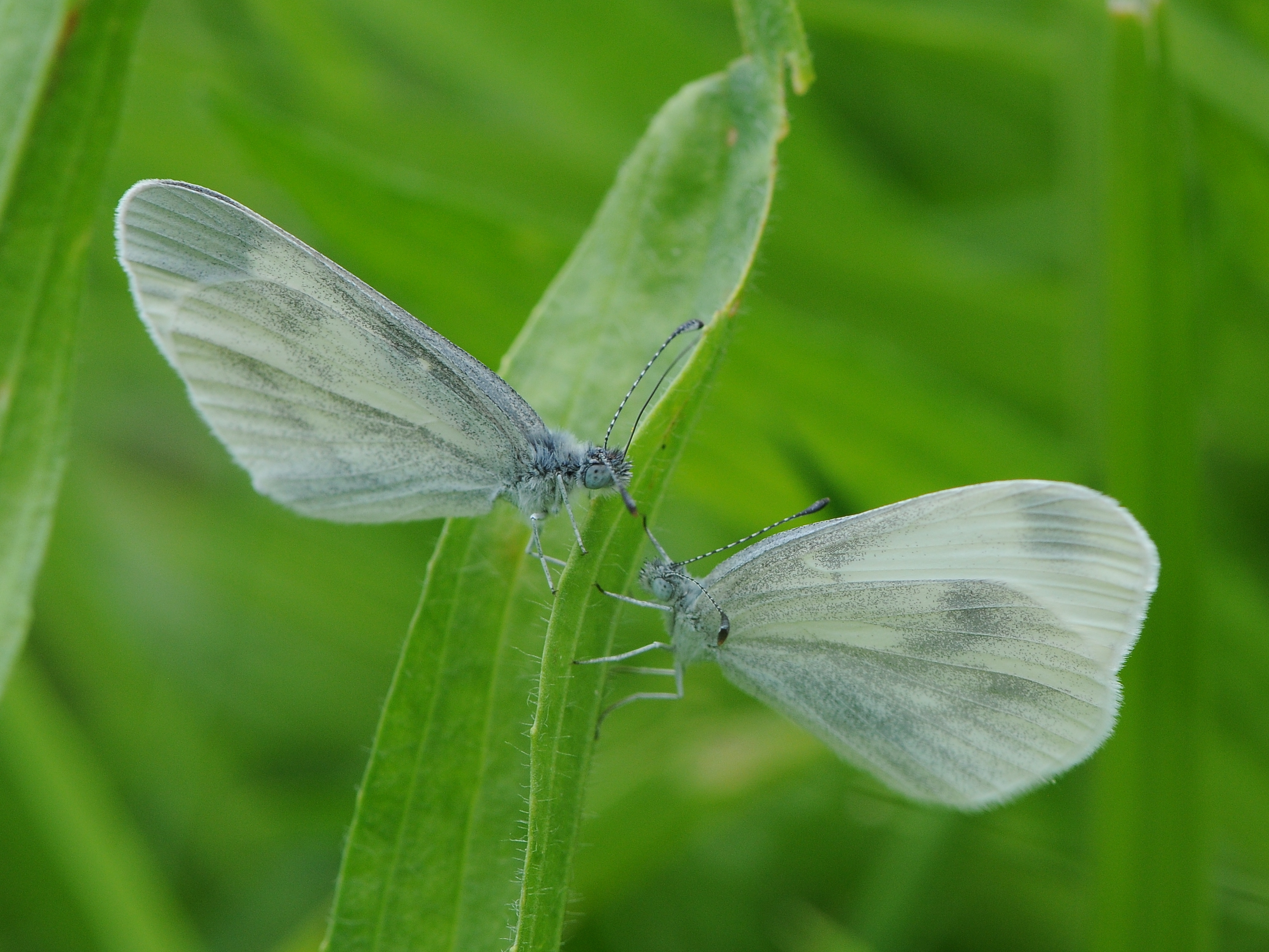 The Wood White is a butterfly of the Pieridae family. The plant is a Galium species. Photographed in Sennwald.